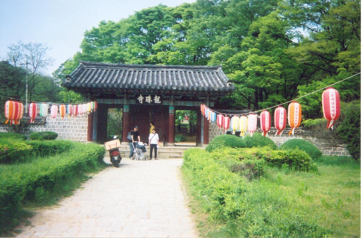 Temple Yongju (Hwaseong City ,GYEONGGI,REP.OF.KOREA)